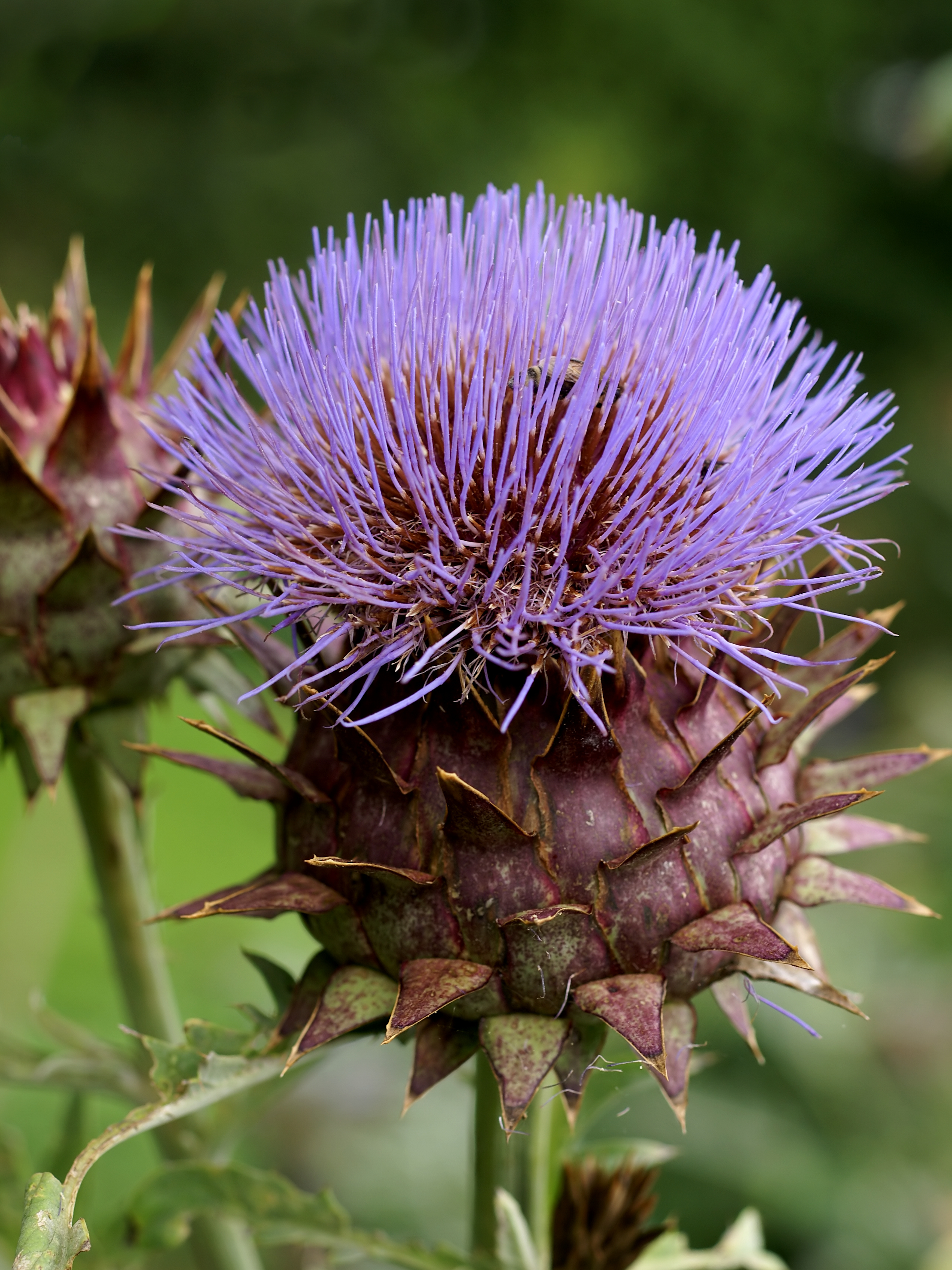 Artichoke thistle in the Kalmthout arboretum in Belgium